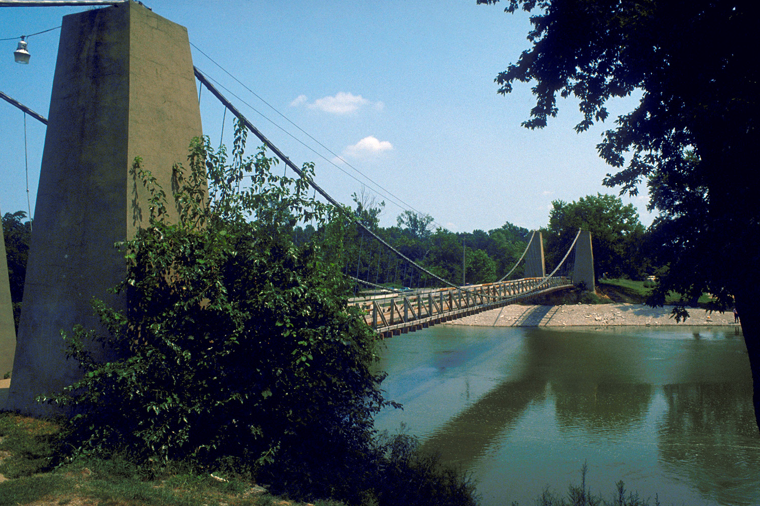 The General Dean Suspension Bridge over the Kaskaskia River in Clinton County, Illinois, USA.